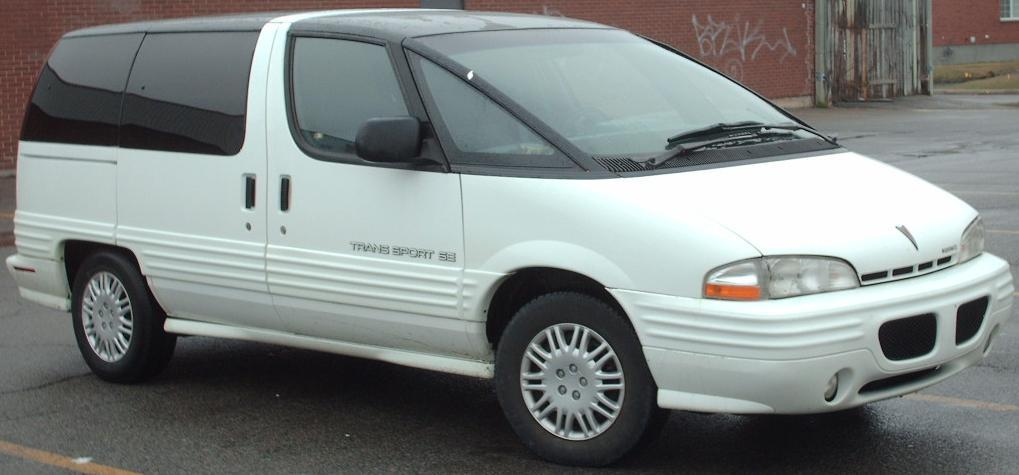 1994-1996 Pontiac Trans Sport photographed in Montreal, Quebec, Canada.